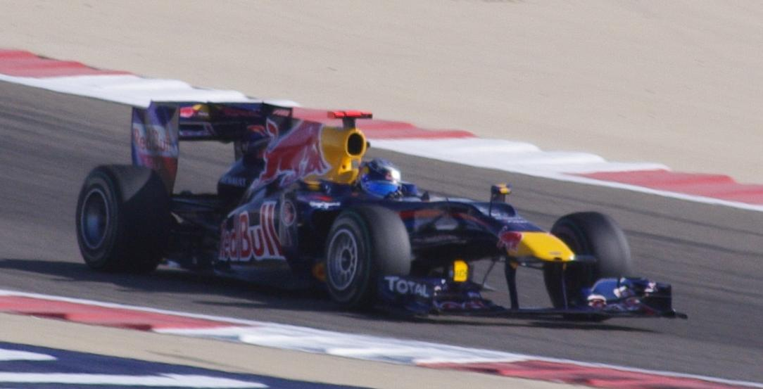 Sebastian Vettel driving for Red Bull Racing at the 2010 Bahrain Grand Prix.